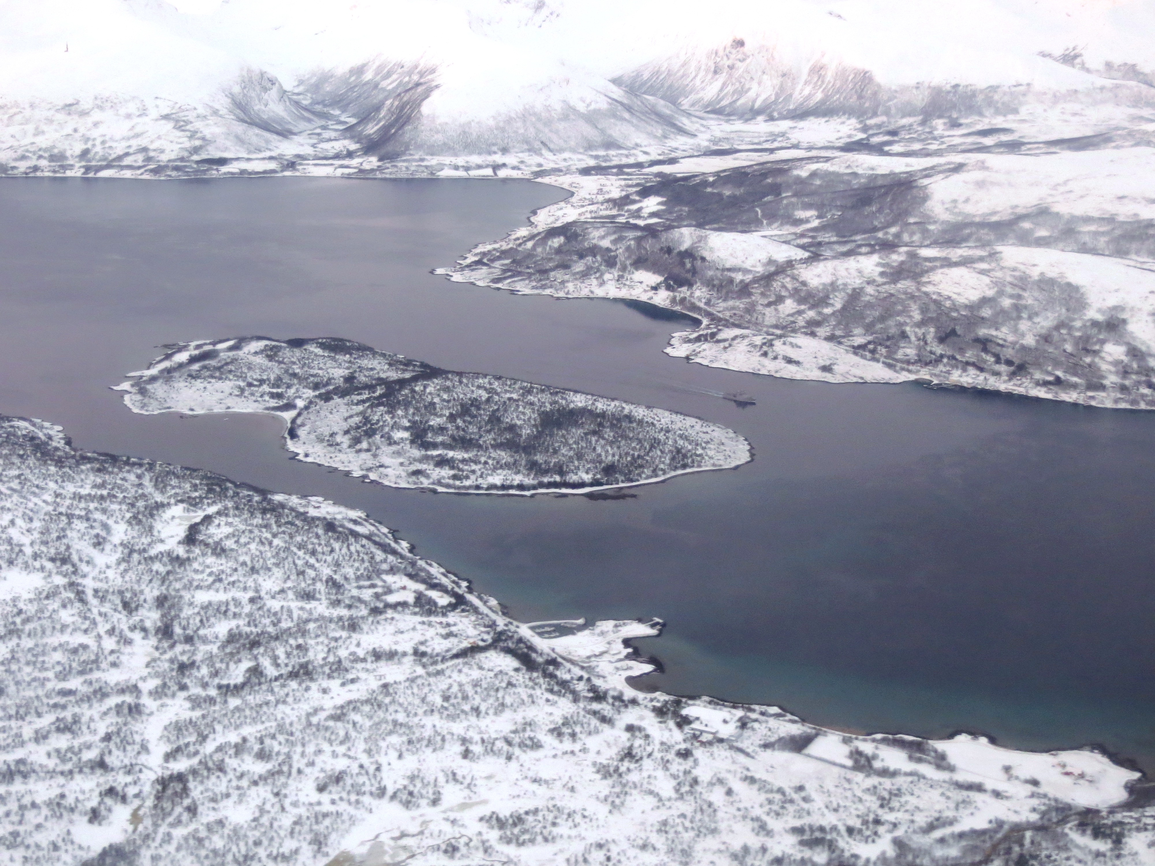 Aerial view of the fjord Straumsfjorden in the municipality of Balsfjord, south of Tromsø, in Troms county (Norway). Between the small island Ryøya and the land mass of the large island Kvaløy at the top a Coast Guard ship is visible in the Storstraumen branch of the Rystraumen.